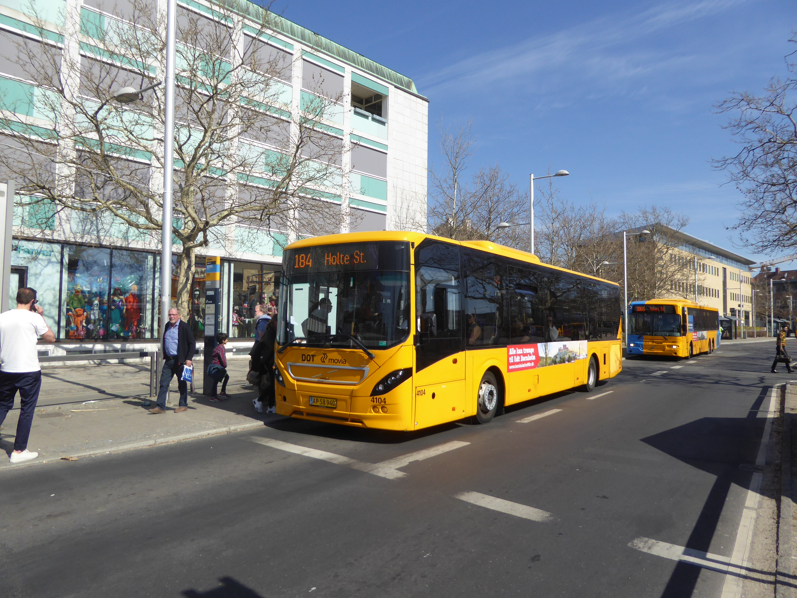 Movia bus line 184 and 300S at Lyngby Station in Copenhagen.